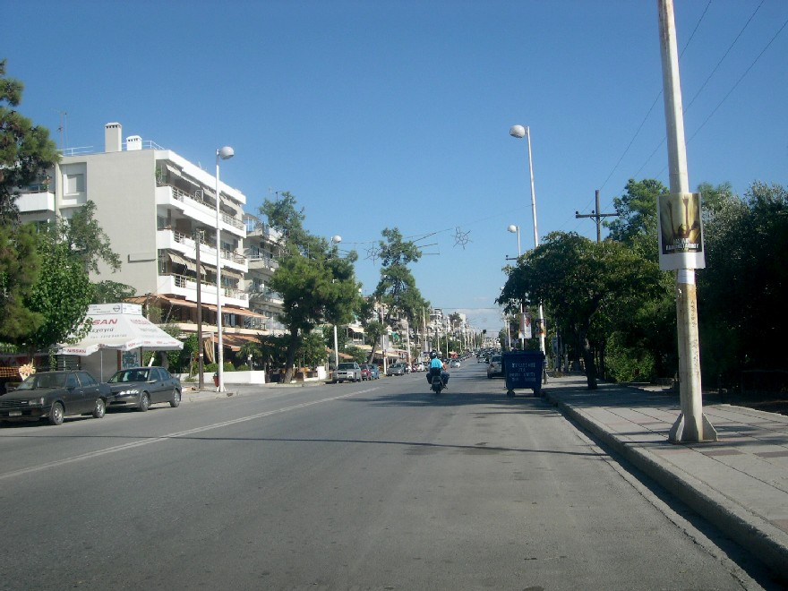 The popular suburb of Nea Krini in Kalamaria municipality, Thessaloniki, Greece. Photo taken in 2006.